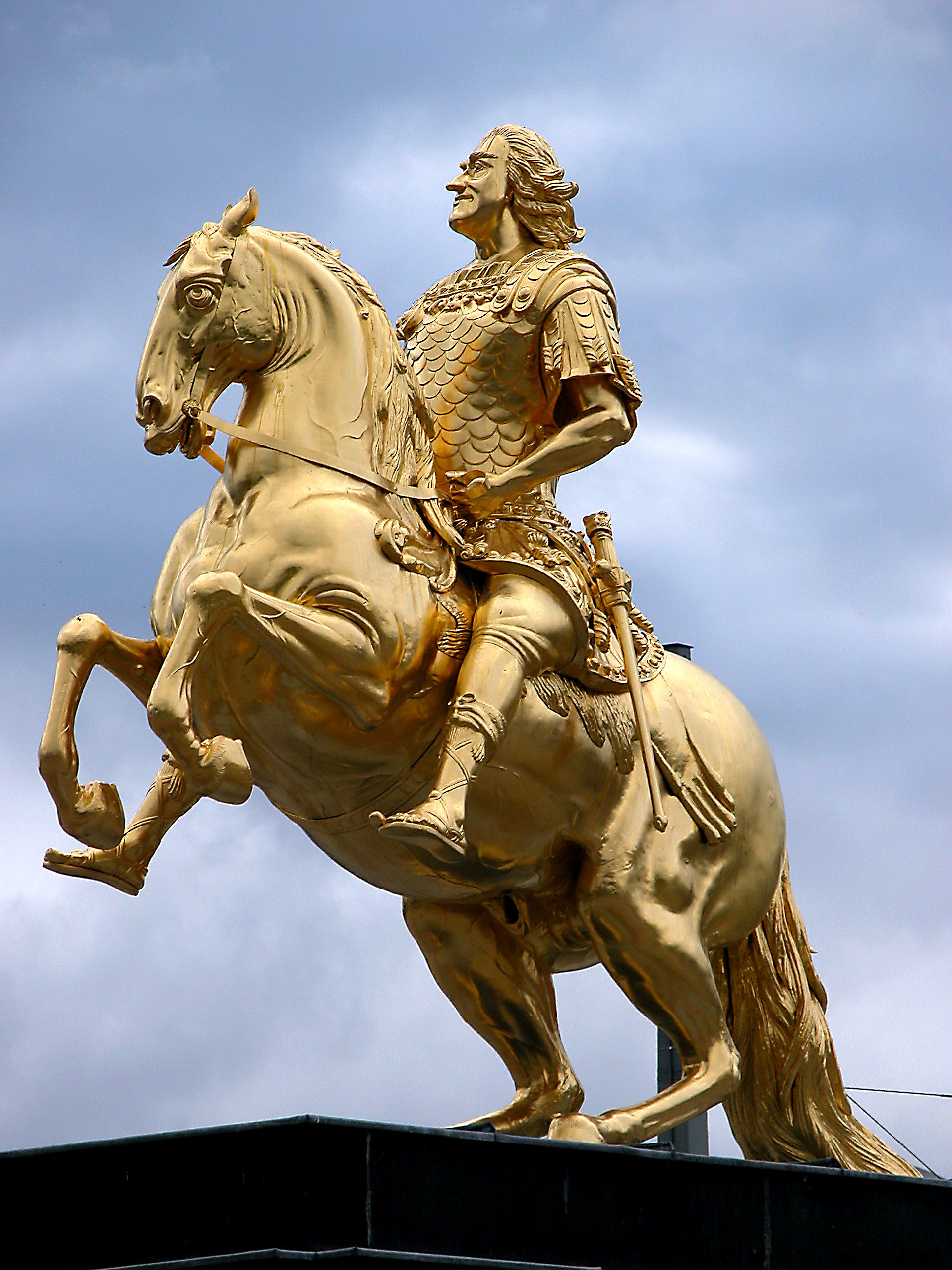 Golden Horseman, Dresden, Germany